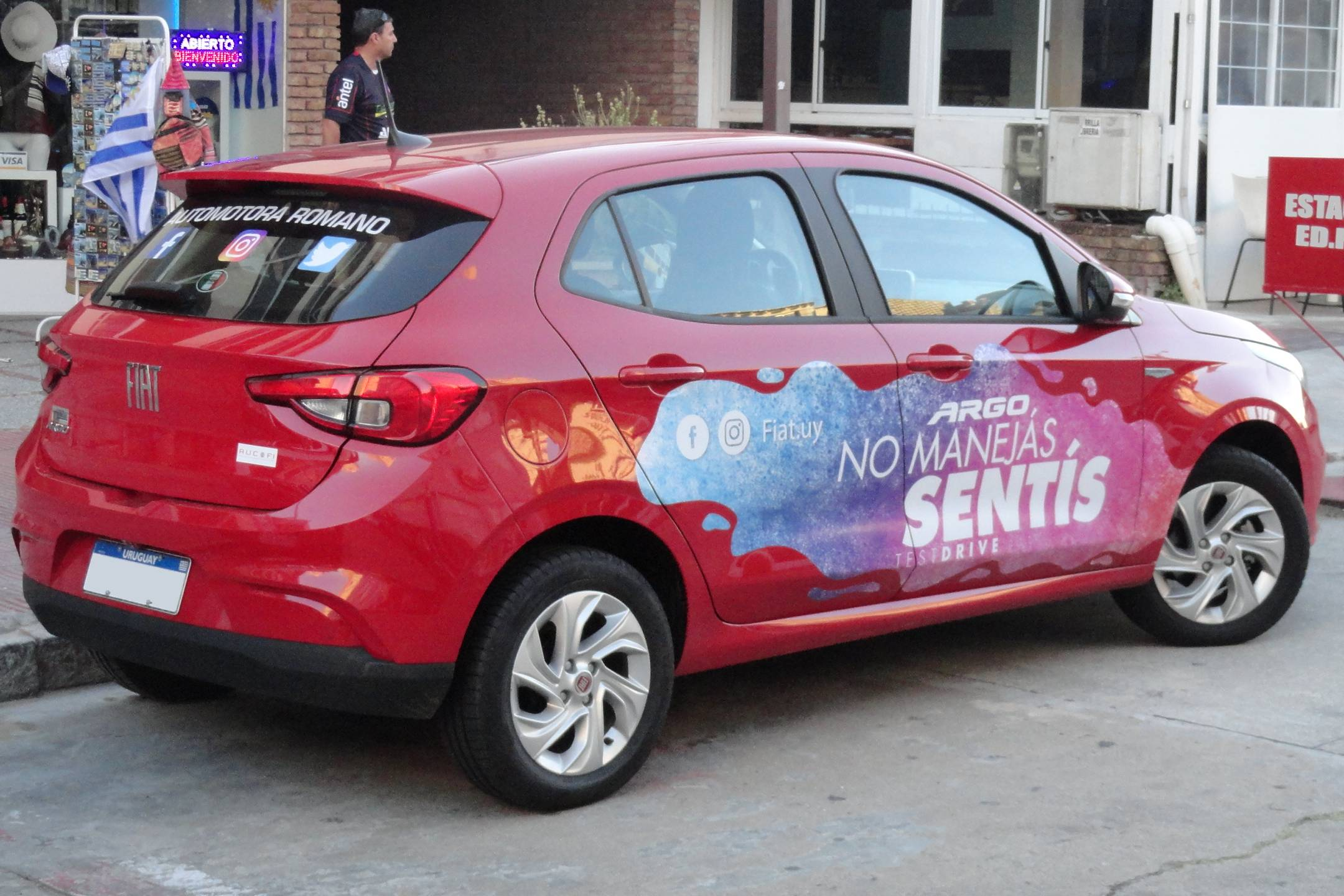 Fiat Argo test drive car in Punta del Este.